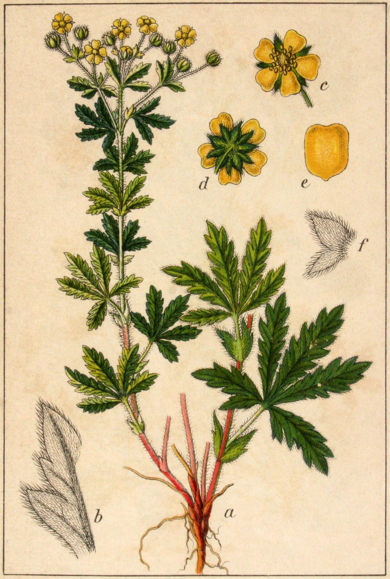 Potentilla inclinata Vill.